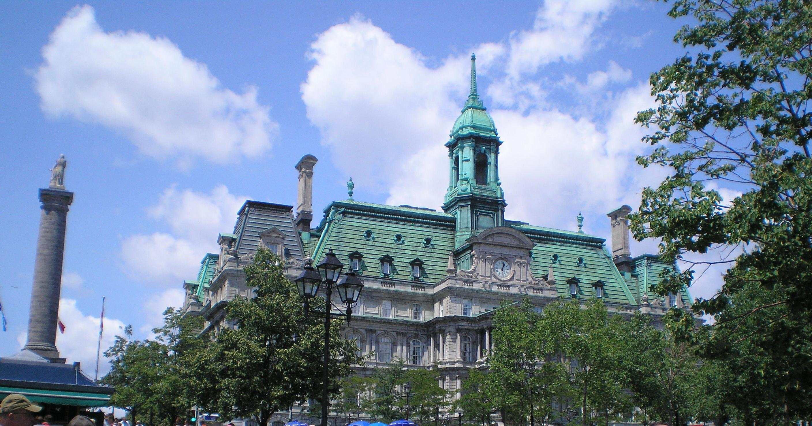 Montreal City Hall.